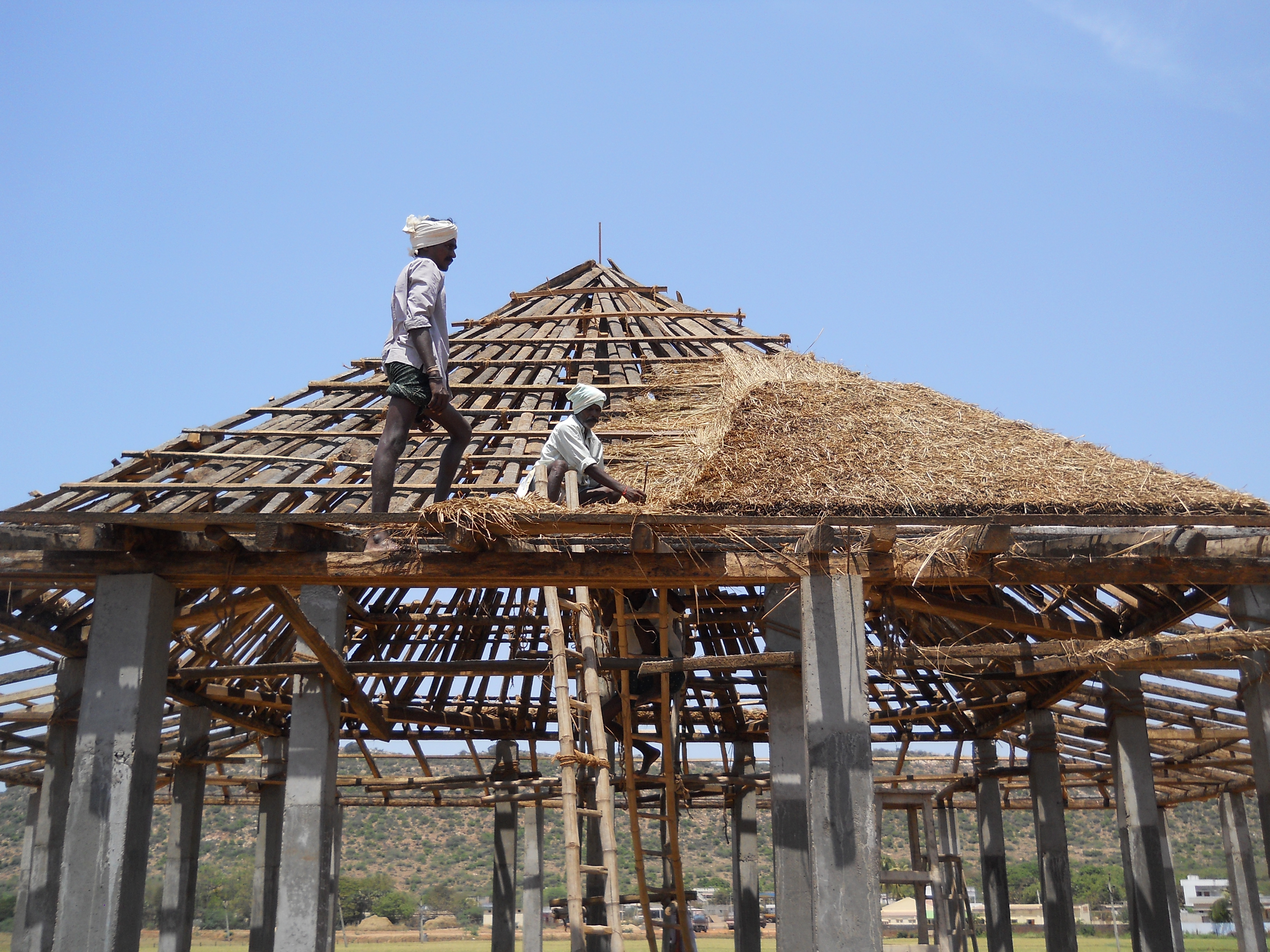 Thatcher